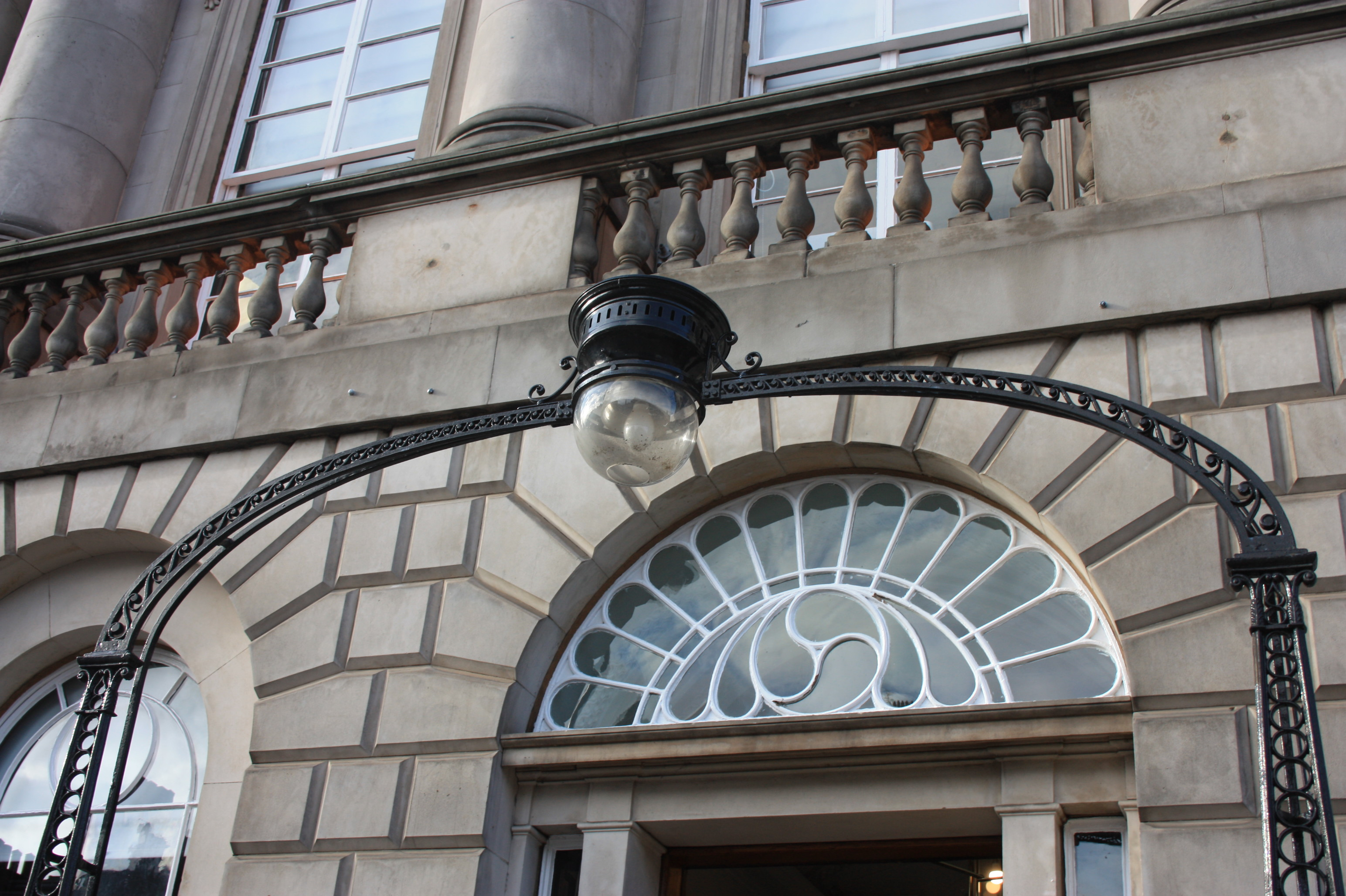 An early gas lamp on Melville Street Edinburgh (converted to electric use)